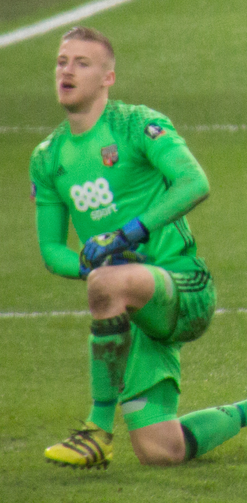 Daniel Bentley playing for Brentford against Chelsea at Stamford Bridge, London on 28 January 2017